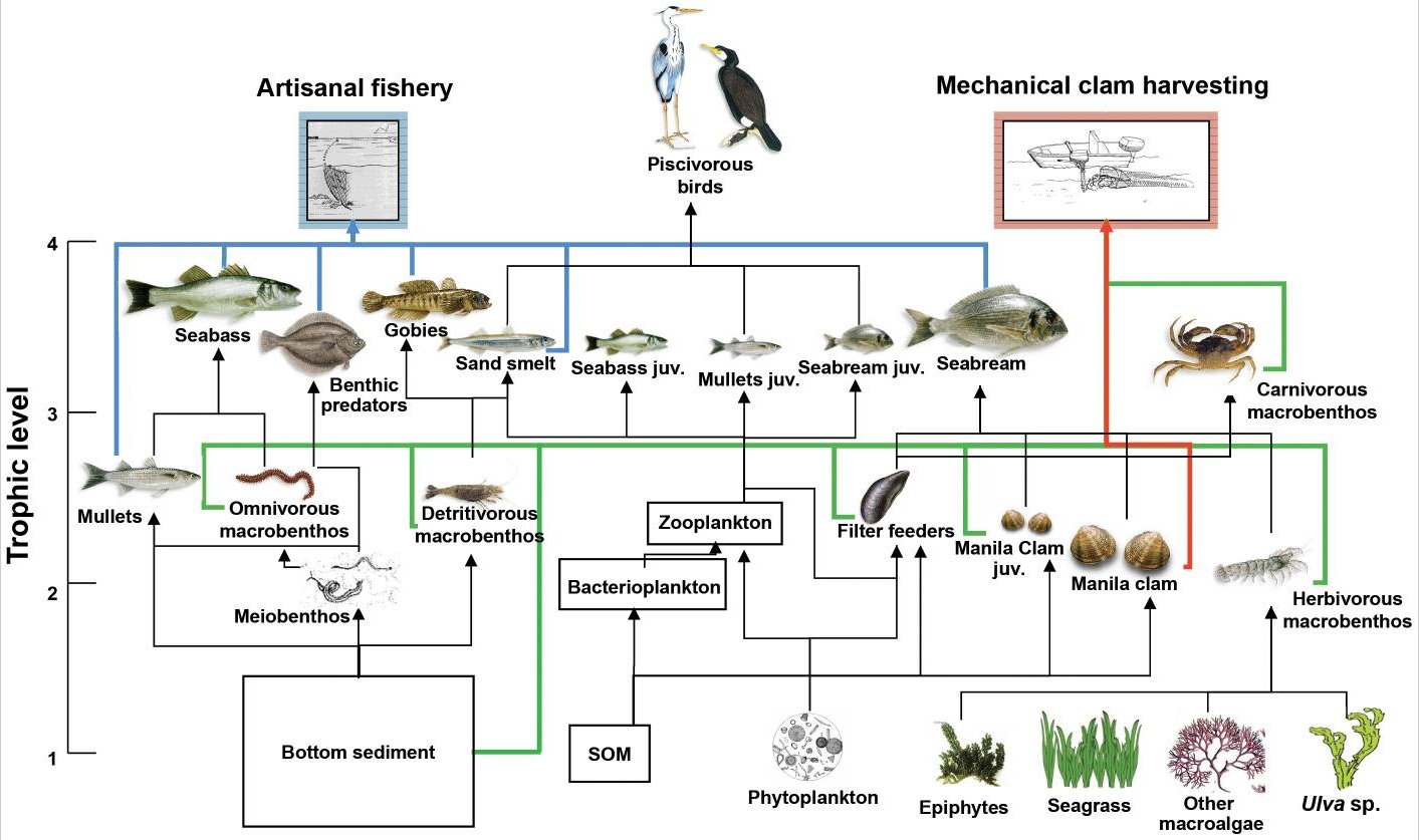 Food web diagram of the Venice lagoon with 27 nodes or functional groups. Colors of flows depict different fishing target (artisanal fisheries in blue, and clam fishery in red) and non-target species (for clam harvesting, in green). Modified from: Pranovi, F., Libralato, S., Raicevich, S., Granzotto, A., Pastres, R. and Giovanardi, O. (2003)." Mechanical clam dredging in Venice lagoon: ecosystem effects evaluated with a trophic mass-balance model". Marine Biology, 143(2): 393–403.